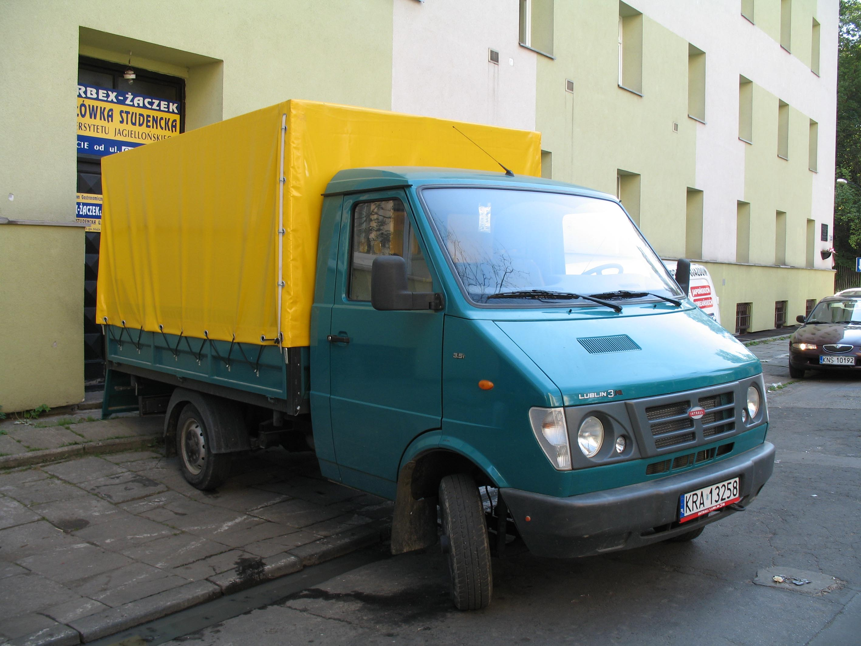 Intrall Lublin 3 Mi 3.5t in Kraków, Poland.